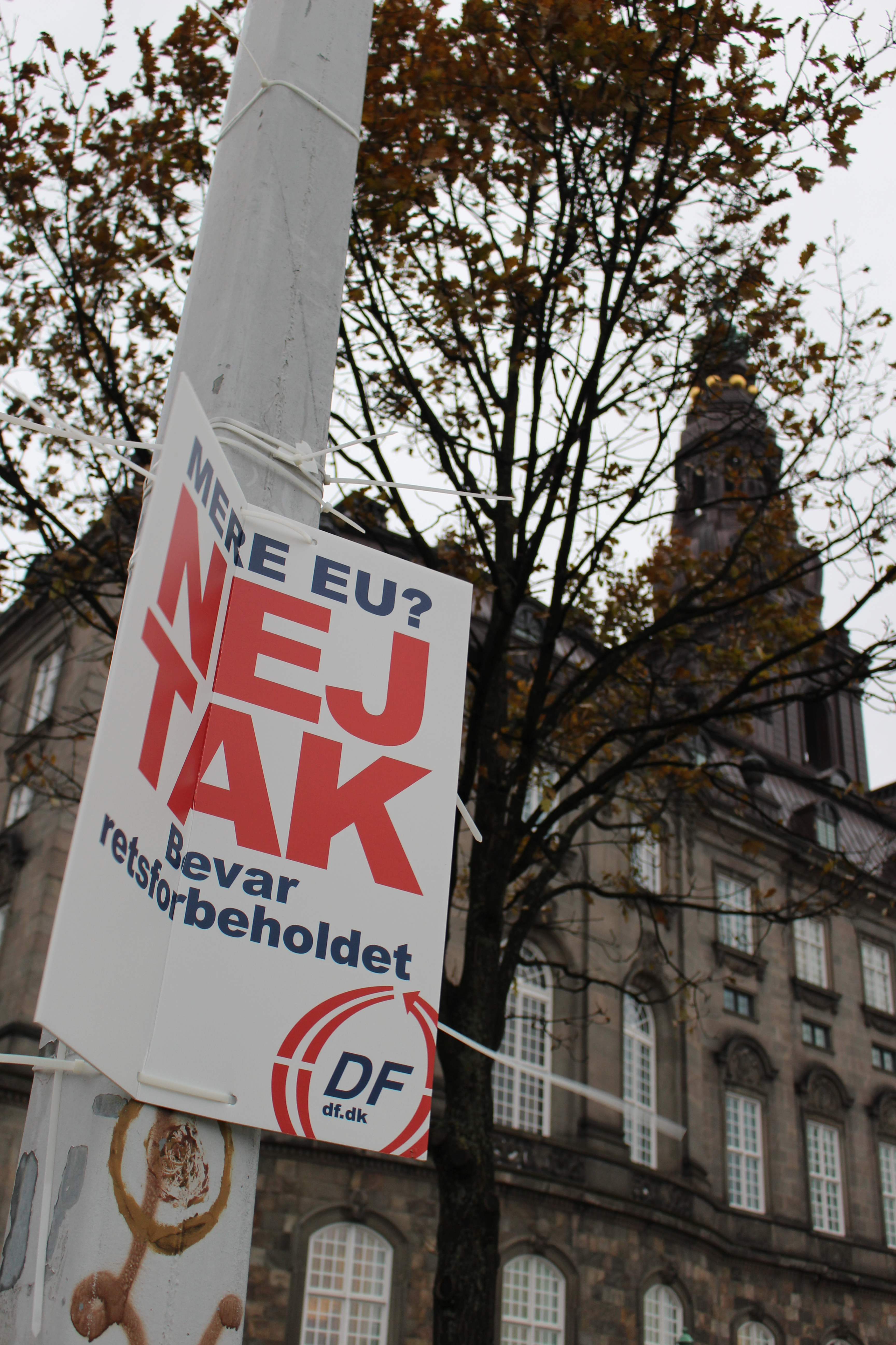 Danish poster from the Danish People's Party in connection with the Danish European Union opt-out referendum, 2015. Saying "MORE EU? NO THANKS"